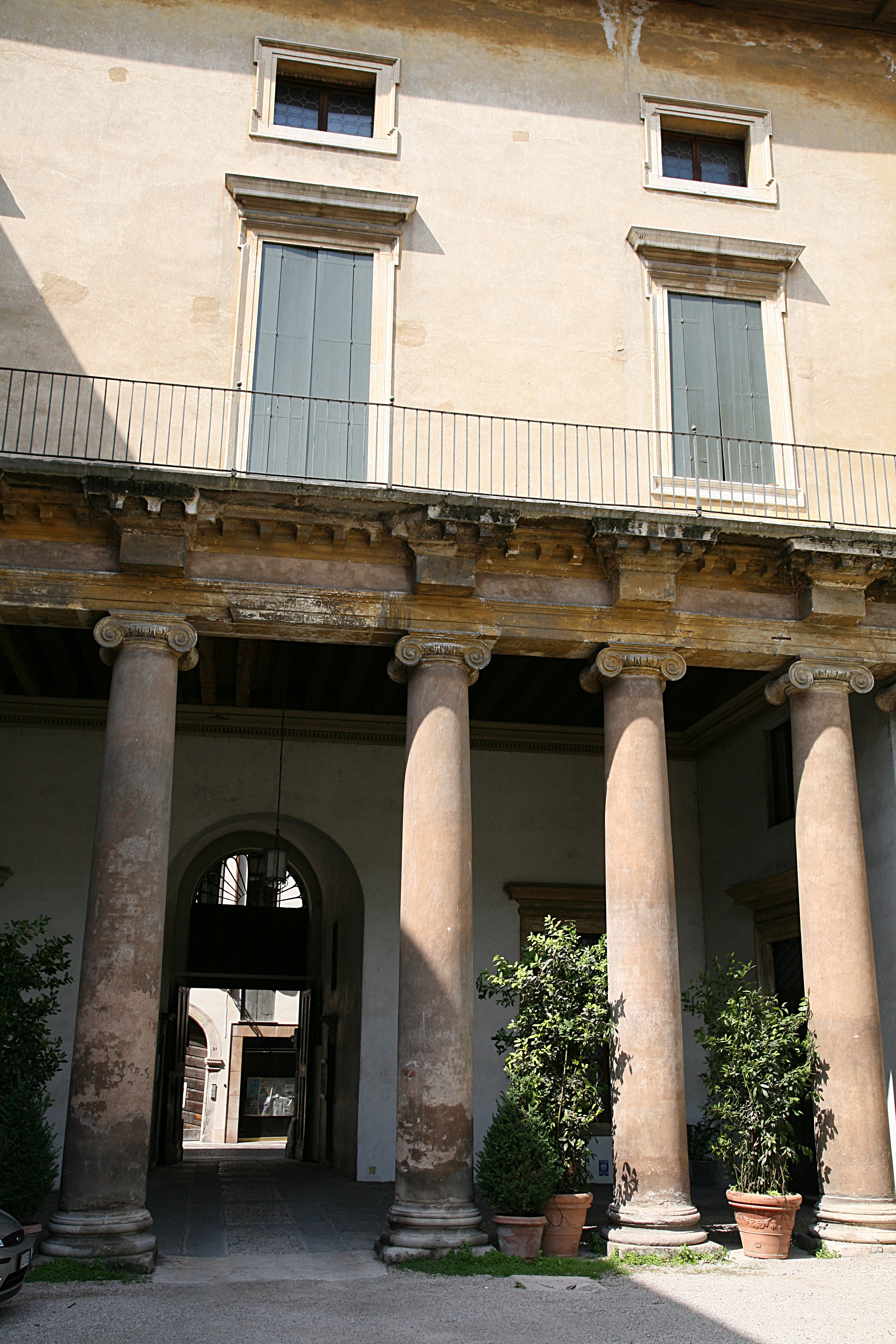 Palazzo Valmarana-Braga in Vicenza by Andrea Palladio.